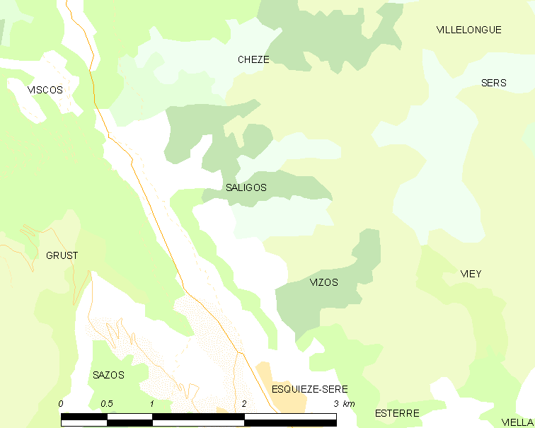 Map of French municipality